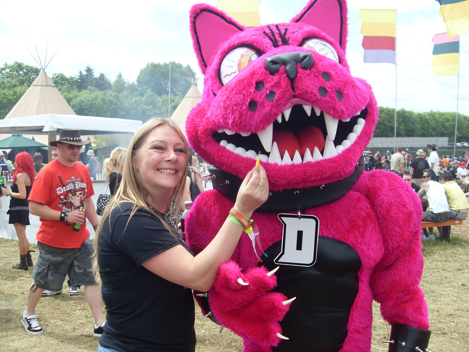 TePe Chronicles - in search of the Download Dog